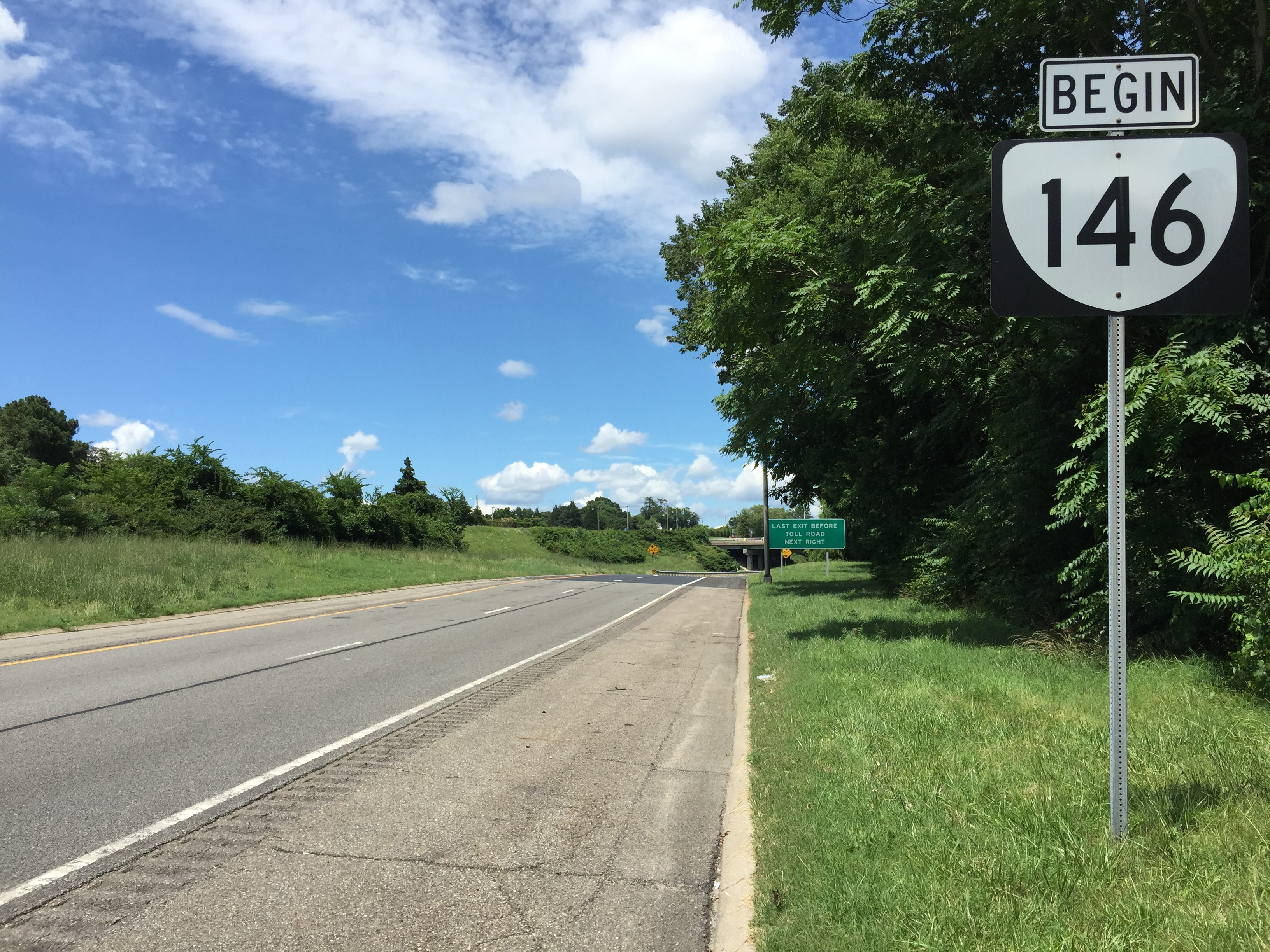 View east along Virginia State Route 146 at Virginia State Route 76 (Powhite Parkway) in Richmond, Virginia